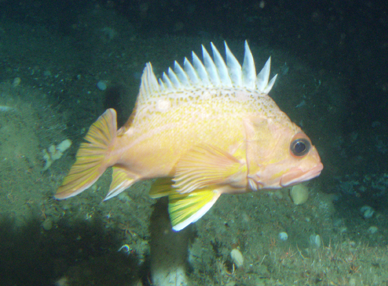 Greenspotted rockfish (Sebastes chlorostictus) observed off Point Sur during a sanctuary seafloor monitoring survey using the Delta submersible.